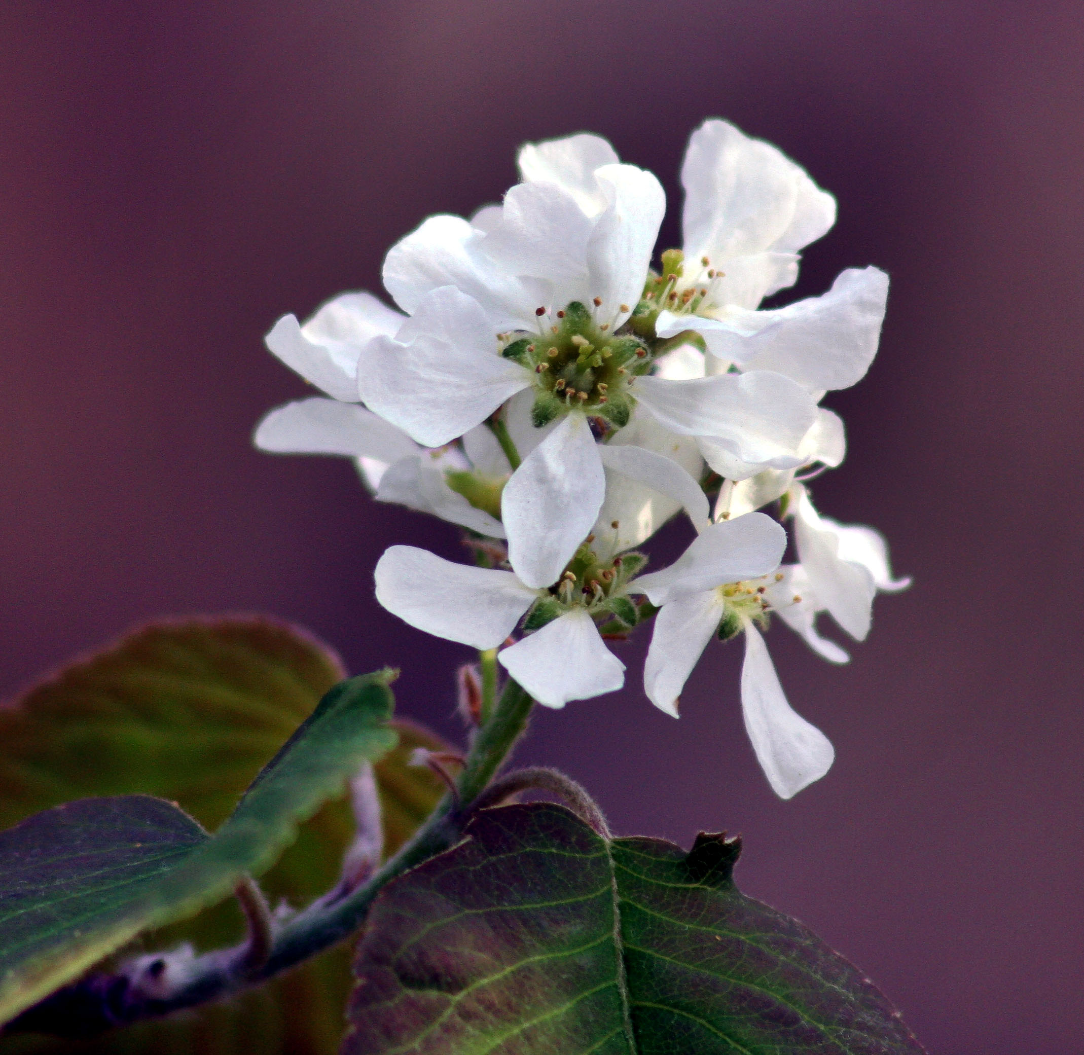 Self made image of Amelanchier spicata taken in spring of 2008.